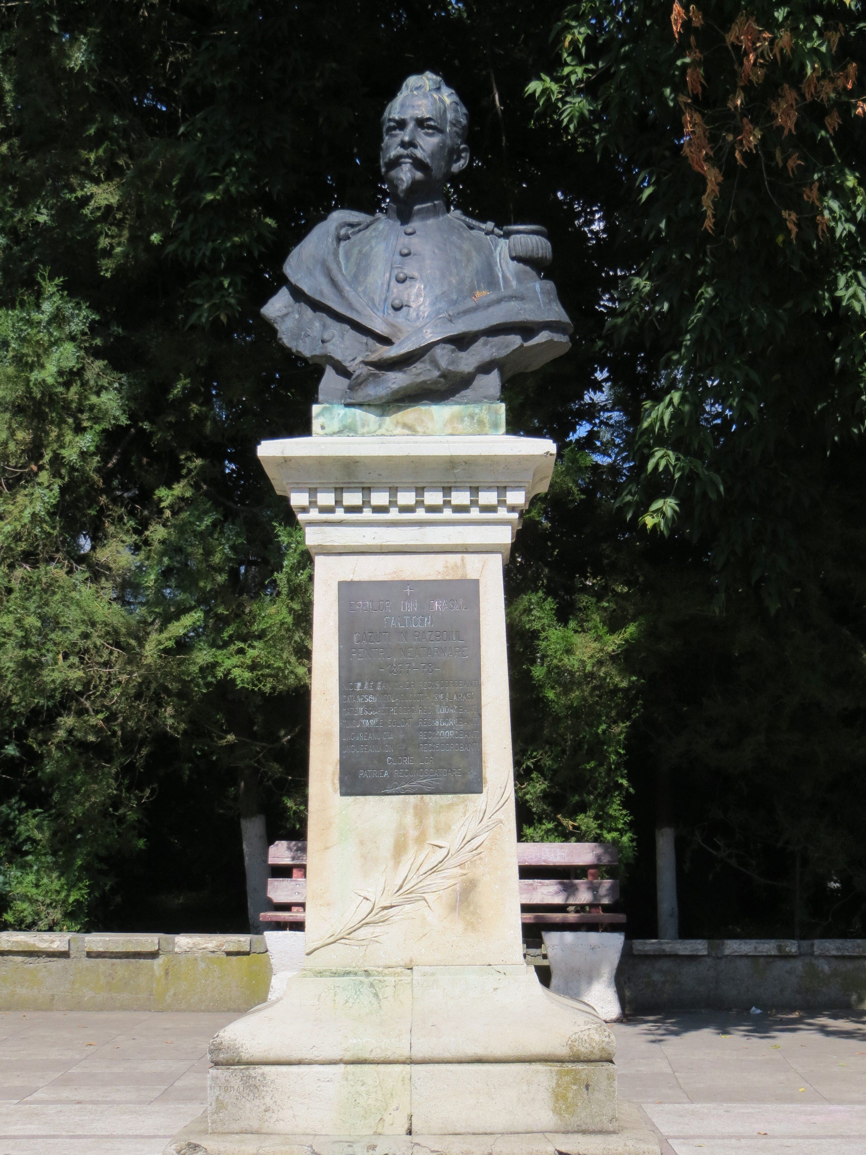 Bust of Major Ioan Neculai, Fălticeni, Suceava County, Romania.